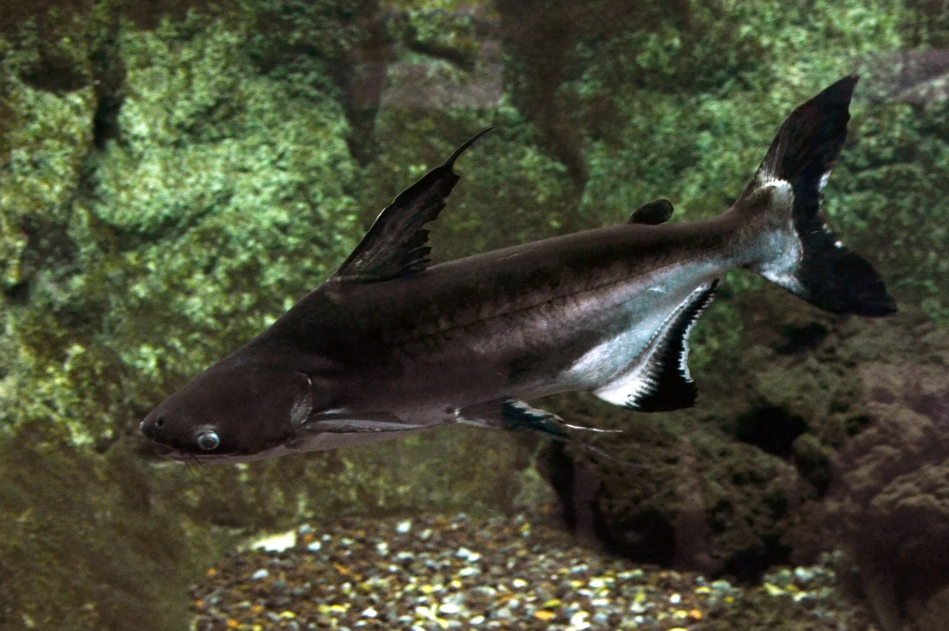 Giant pangasius ( Pangasius sanitwongsei ). Aquarium tropical du Palais de la Porte Dorée, in Paris.